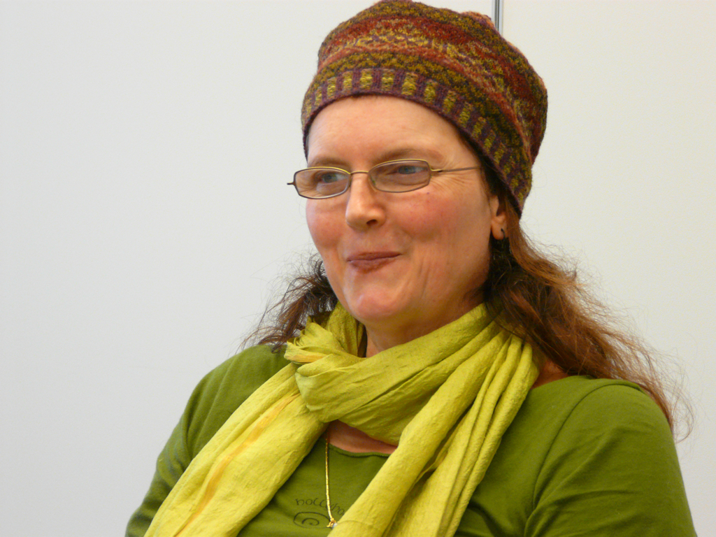 Danese Cooper, Open Source Initiative board member.